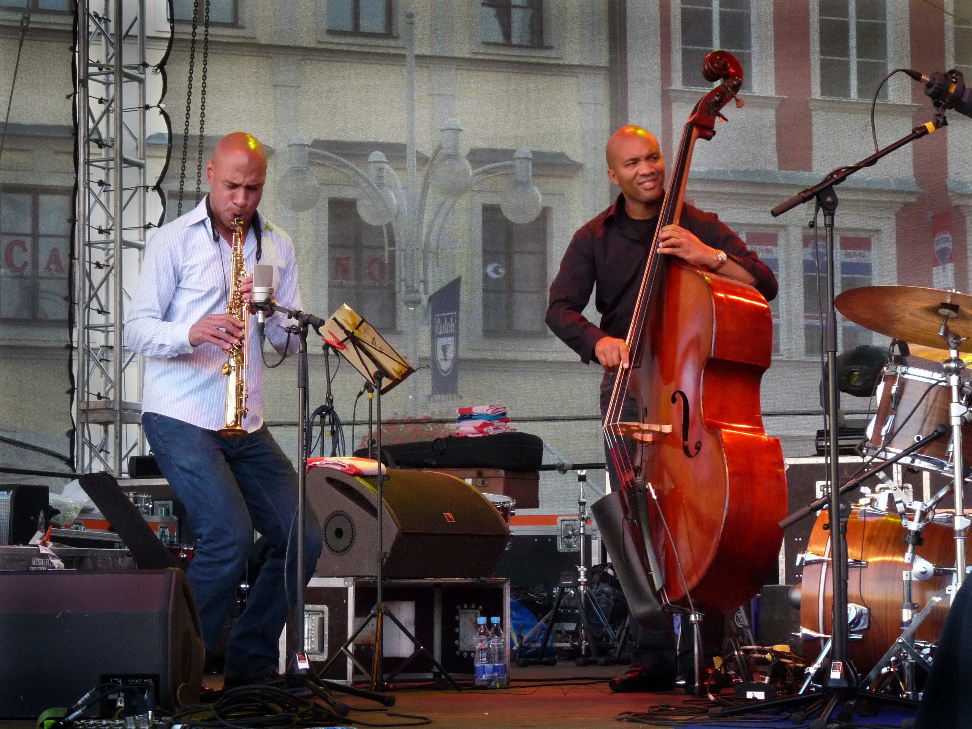 Joshua Redman (left) playing in the Joshua Redman Trio at Bohemia Jazz Fest in České Budějovice, Czech Republic 2009